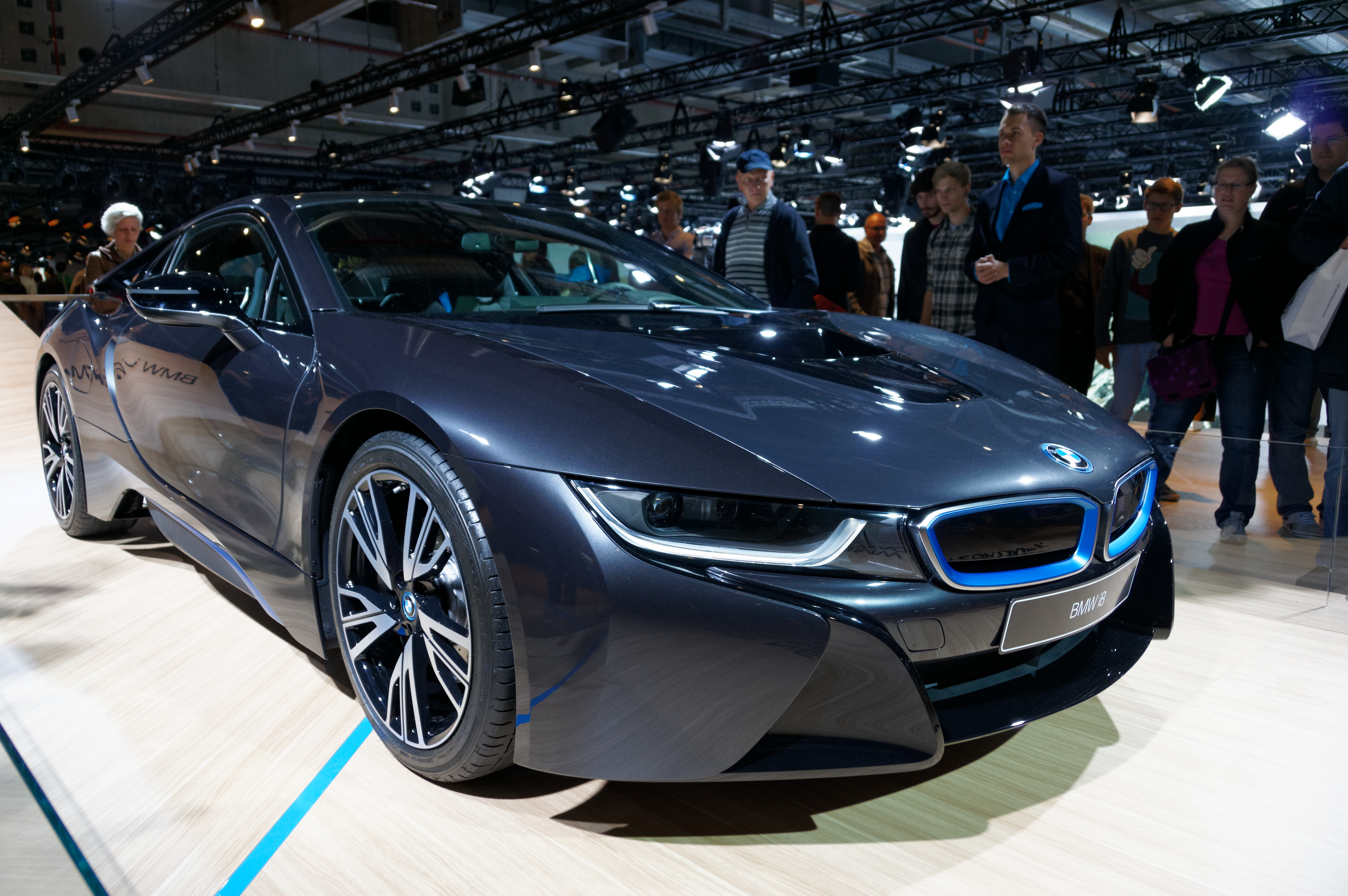 BMW i8 plug-in electric car (production version) at the 2013 Frankfurt Motor Show.